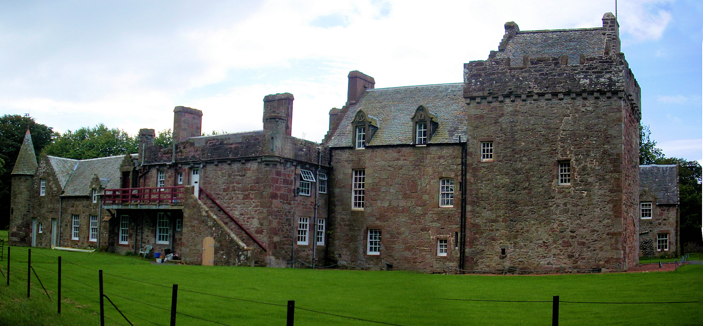 Hunterston Castle near West Kilbride, North Ayrshire, Scotland. Photo by Dreamer84, taken on 30 August 2007.